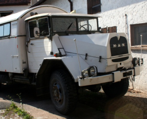 Foto of a MAN 630 L2A